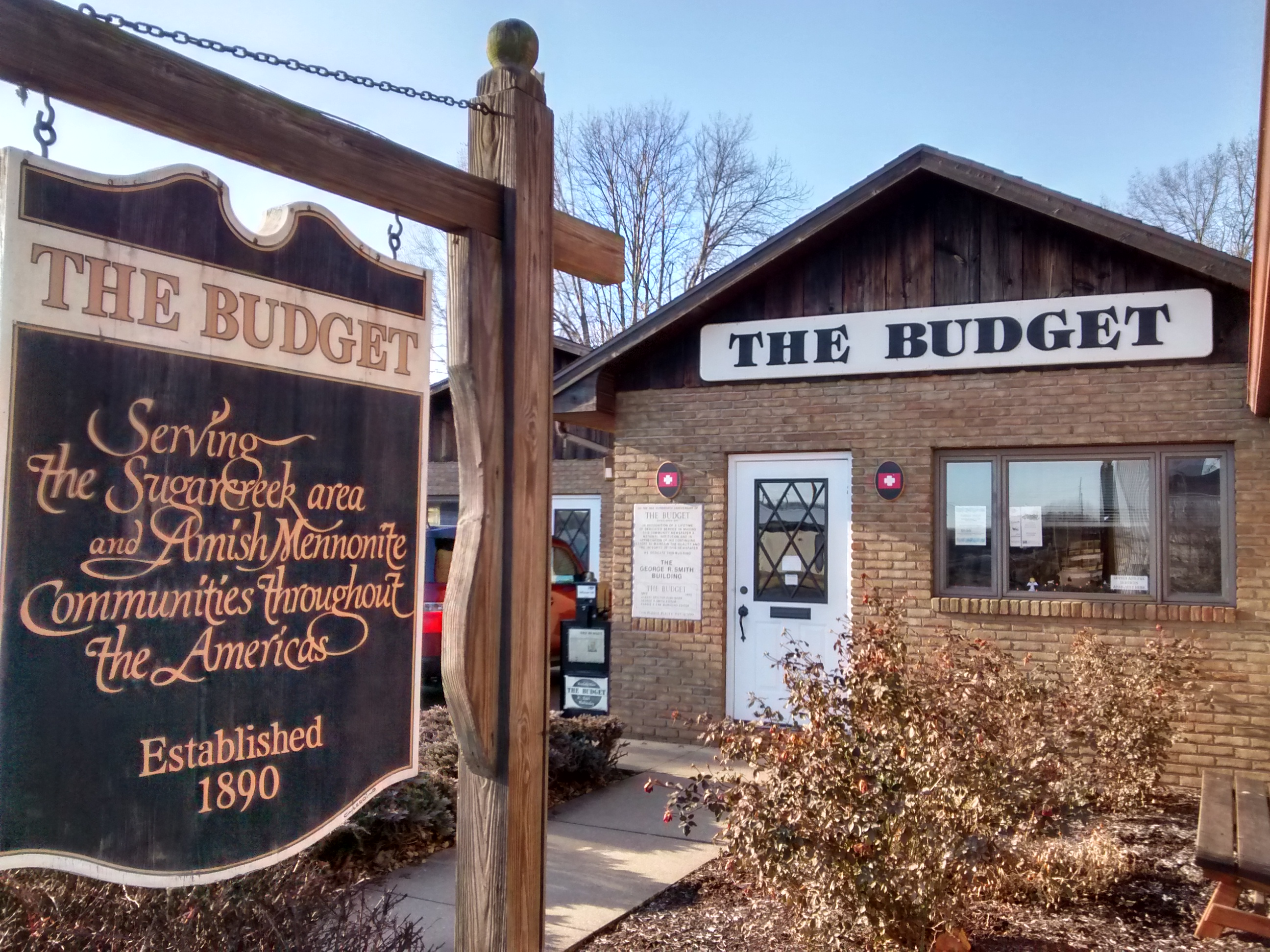 Budget office and plaque, Sugarcreek, Ohio